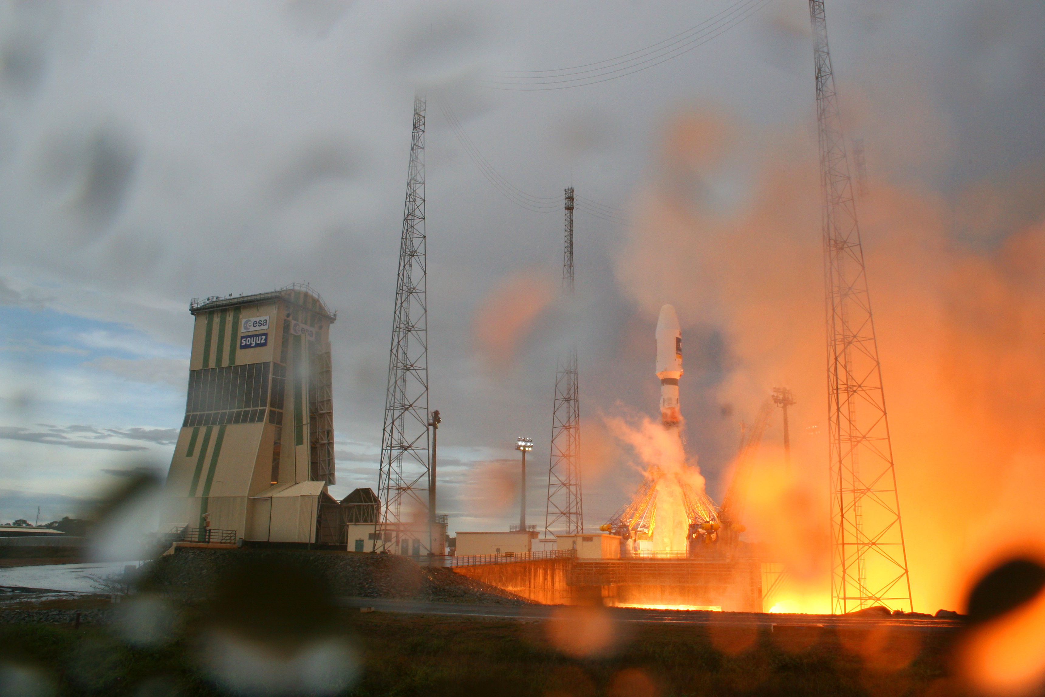 Galileo launch on Soyuz